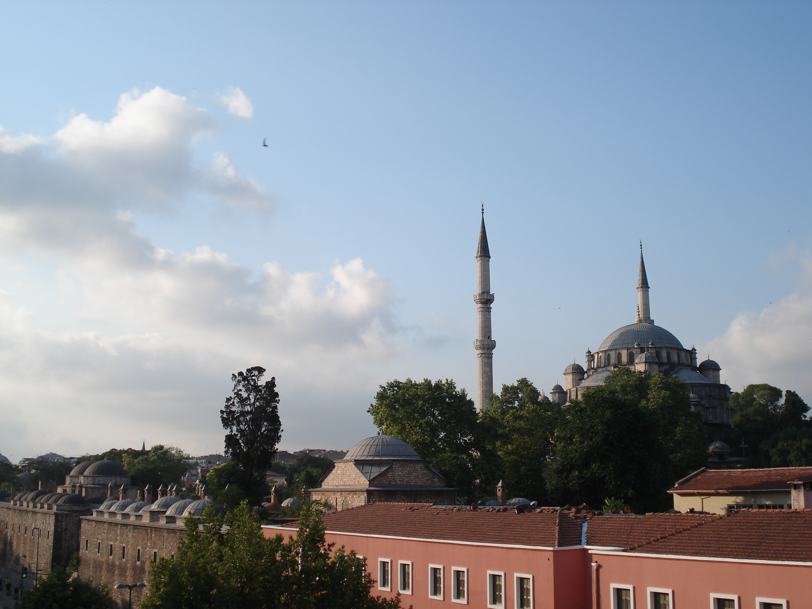 Fatih Camii Istanbul'da